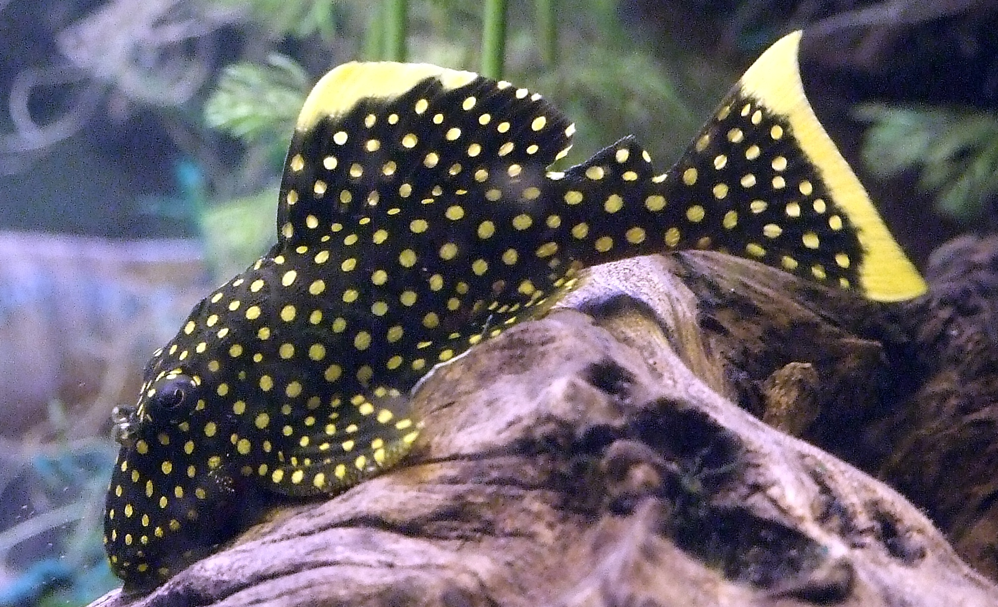 Baryancistrus xanthellus "Golden Nugget". L Number: L-018. The fish is approx. 3-4 years old and 11.5 cm long TL at the time of the photography.